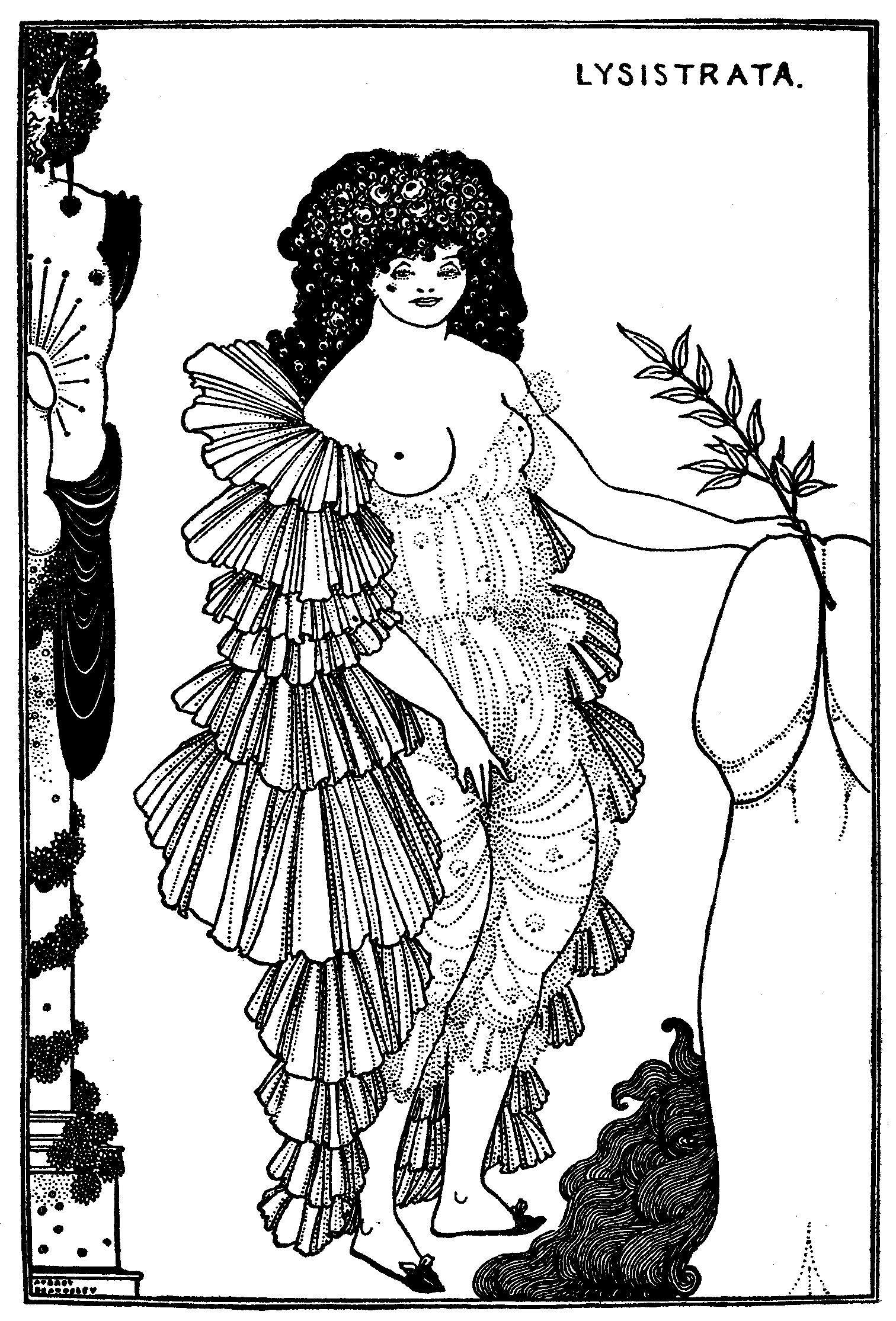 Aubrey Beardsley: Aristophanes Lysistrata, 1896